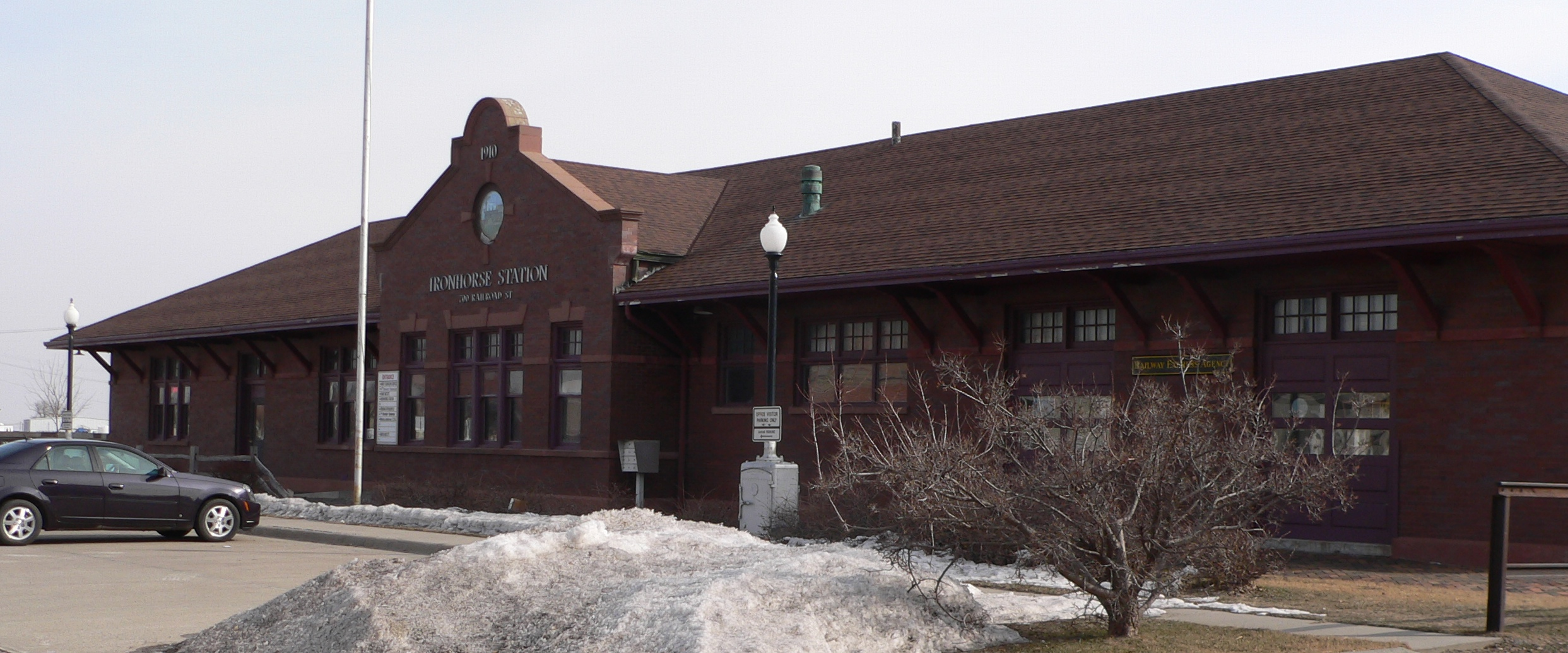 CB&Q Holdrege Depot at 700 Ironhorse St in Holdrege, Nebraska. The building was designed in Mission/Spanish Revival style, and built in 1911. It is listed in the National Register of Historic Places. The depot now functions as a commercial office building.